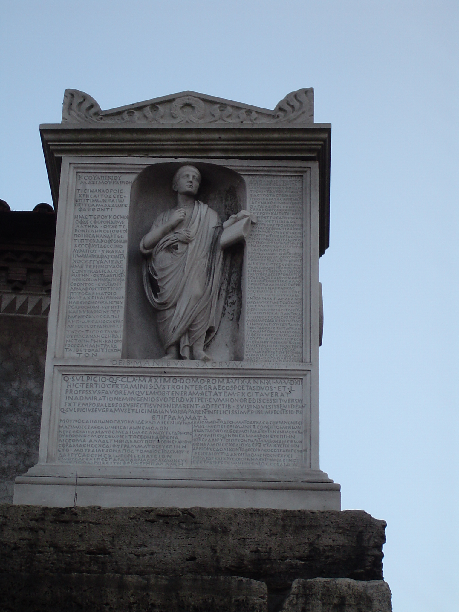 Memorial Stone of Quintius Sulpicius Maximus, Rome, Italy. First century CE; located at the Porta Salaria, Rome, commemorating an 11-year-old who won a poetry contest in 95. CIL VI 33976. Made by Joris van Rooden, the Netherlands on 03-01-2006